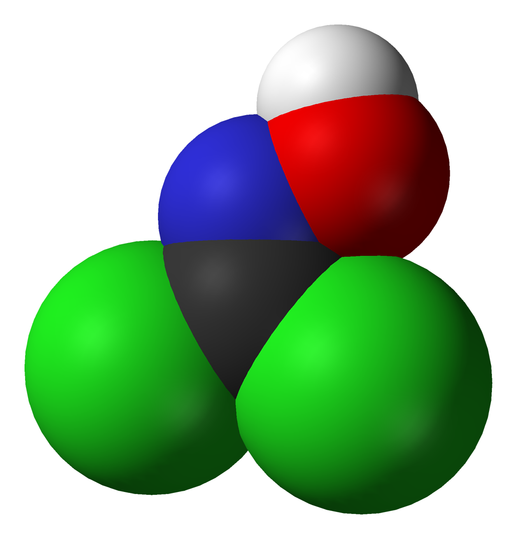 Space-filling model of the phosgene oxime molecule, CHCl2NO. Structure calculated using HF/6-31G* in Spartan '04 Student Edition. Image generated in Accelrys DS Visualizer. For further details on the structure of phosgene oxime, see Tibor Pasinszki and Nicholas P. C. Westwood (1997). "Structure and spectroscopy of dihaloformaldoximes He I photoelectron, photoionization mass spectroscopy, mid-IR, Raman and ab initio study". J. Chem. Soc., Faraday Trans. 93: 43-51.